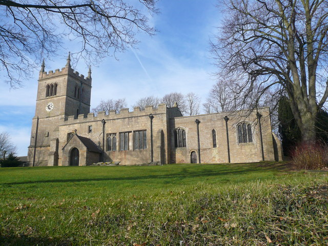 St Leonard's parish church, Scarcliffe, Derbyshire, seen from the southeast